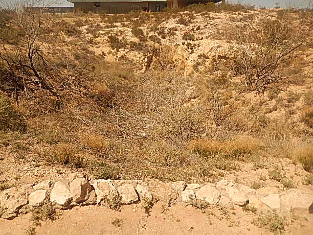 I took photo of Odessa Meteor Crater with Nikon camera.